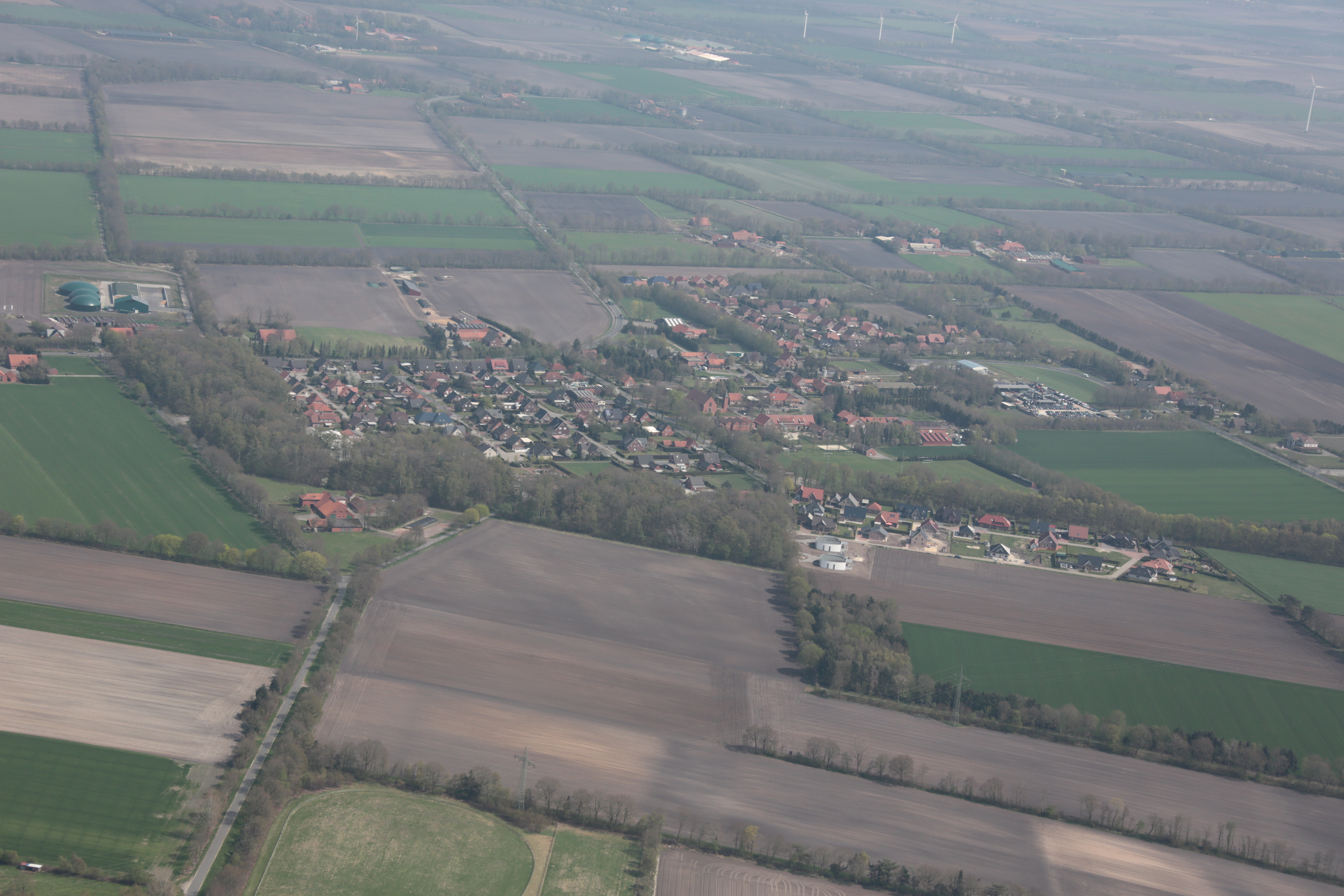 Fotoflug von Nordholz-Spieka nach Oldenburg und Papenburg This photo was taken by Alchemist-hp. If you use one of my photos, an email (account needed) or a message or direct to: my email account would be greatly appreciated. Please note the license terms. Other licensing terms can get discussed, too. This file is copyrighted and has been released under a license which is incompatible with Facebook's licensing terms. It is not permitted to upload this file to Facebook.